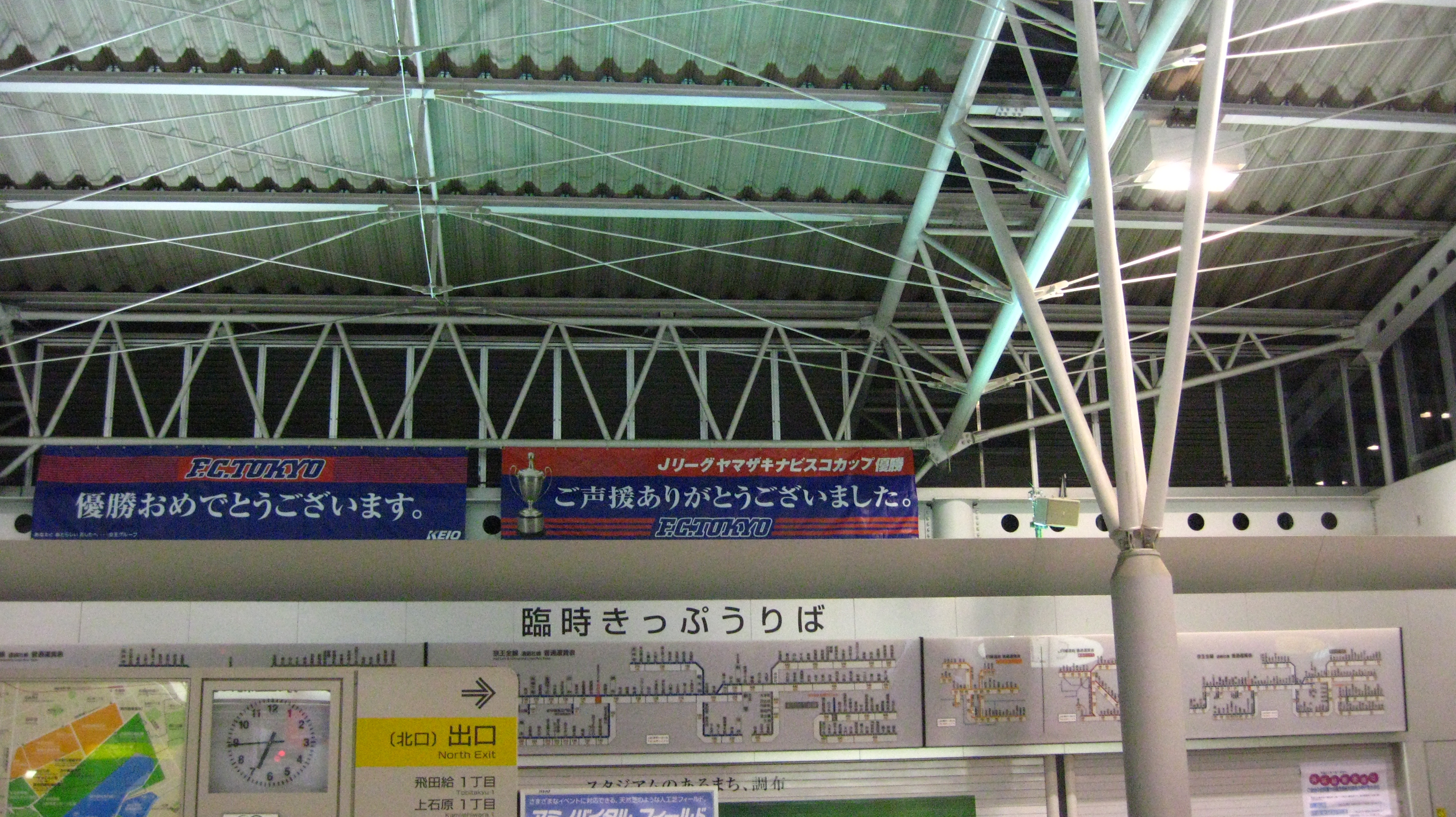 Inside the Tabitakyu Station, congratulate F.C.TOKYO wins J-League Cup